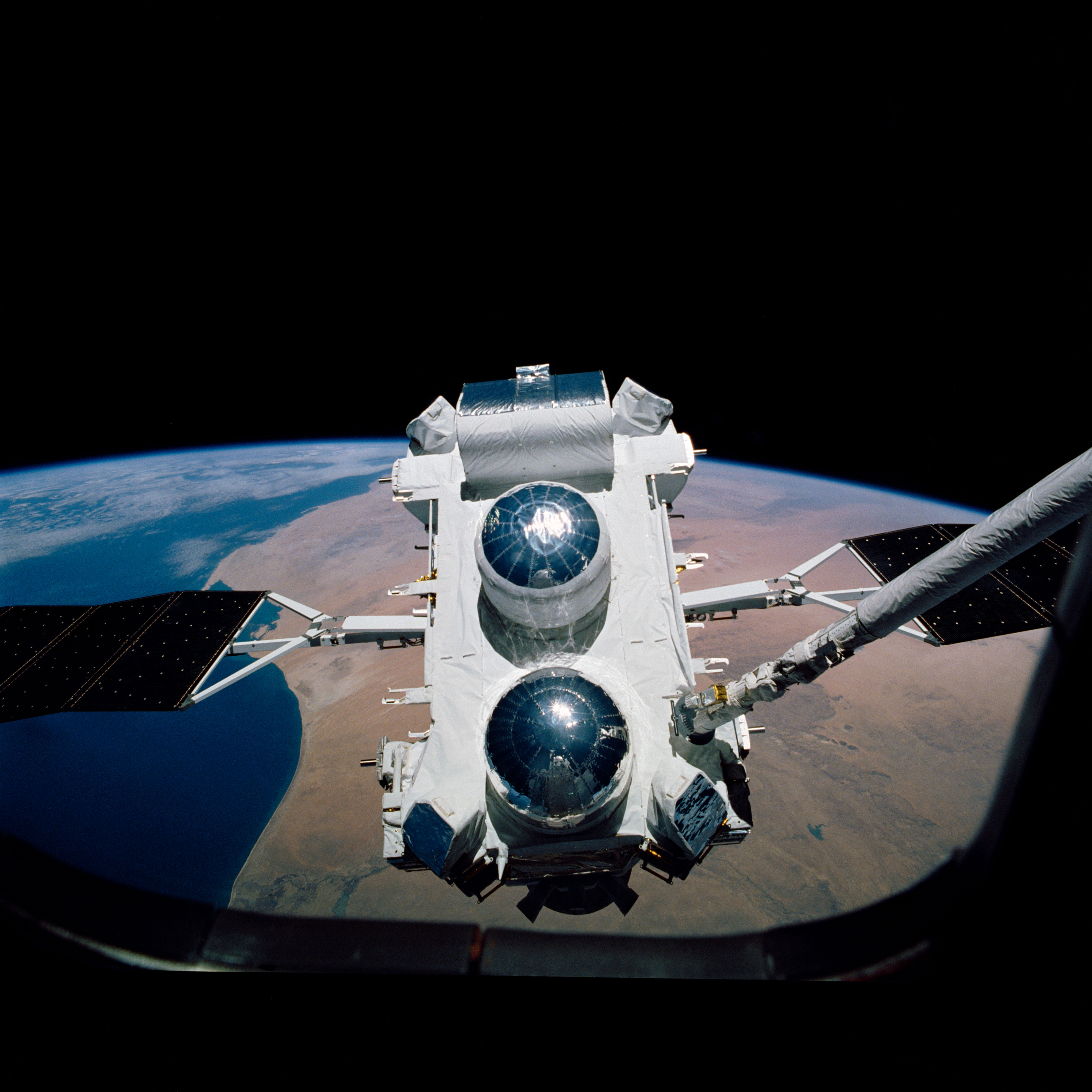 Backdropped against the Earth's surface, the Gamma Ray Observatory (GRO) with its solar array (SA) panels deployed is grappled by the remote manipulator system (RMS) during STS-37 systems checkout. GRO's four complement instruments are visible: the Energetic Gamma Ray Experiment Telescope (EGRET) (at the bottom); the Imaging Compton Telescope (COMPTEL) (center); the Oriented Scintillation Spectrometer Experiment (OSSE) (top); and Burst and Transient Source Experiment (BATSE) (on four corners). The view was taken by STS-37 crew through an aft flight deck overhead window.